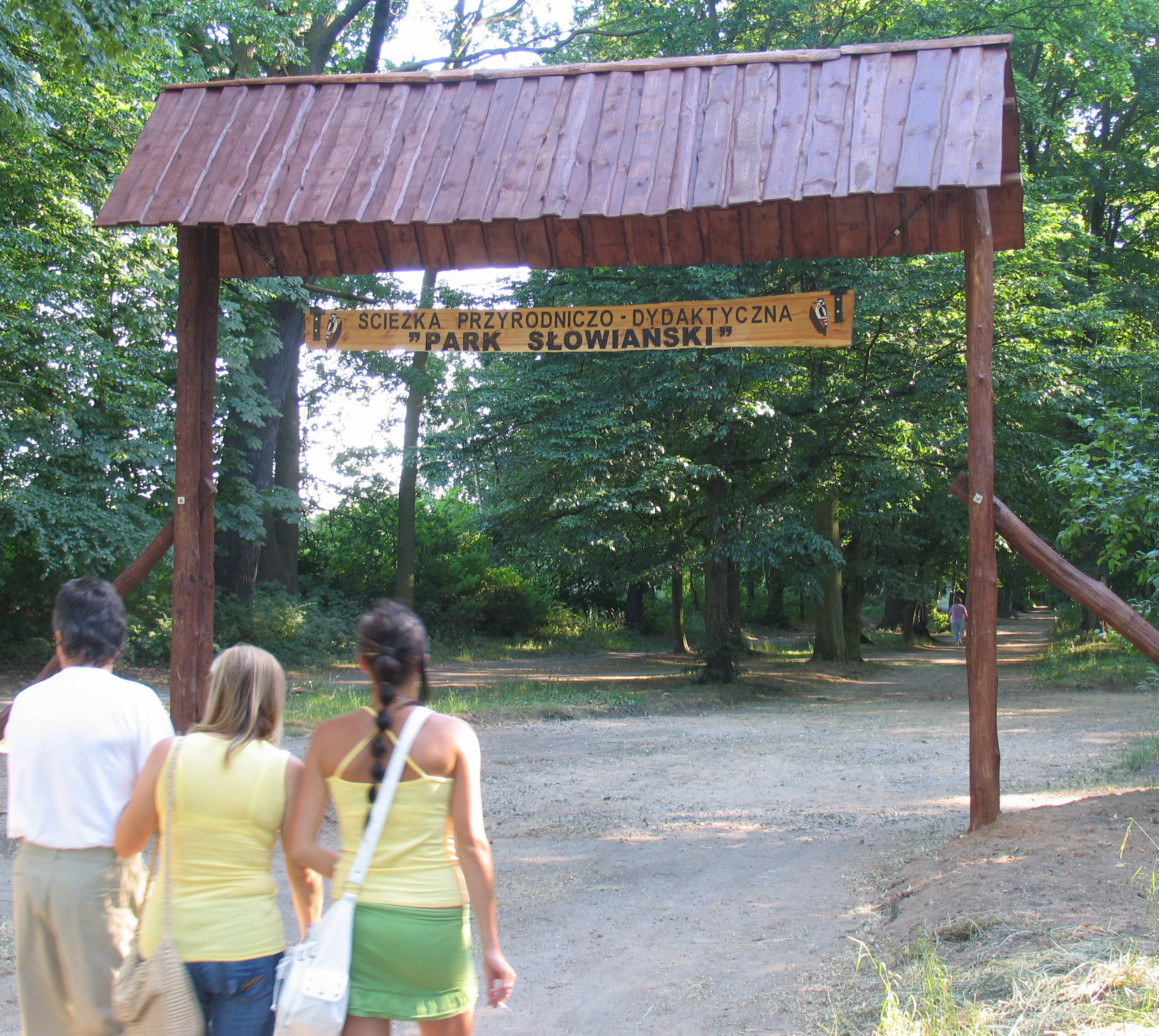 The Slavic Park in Sprottau, Poland.